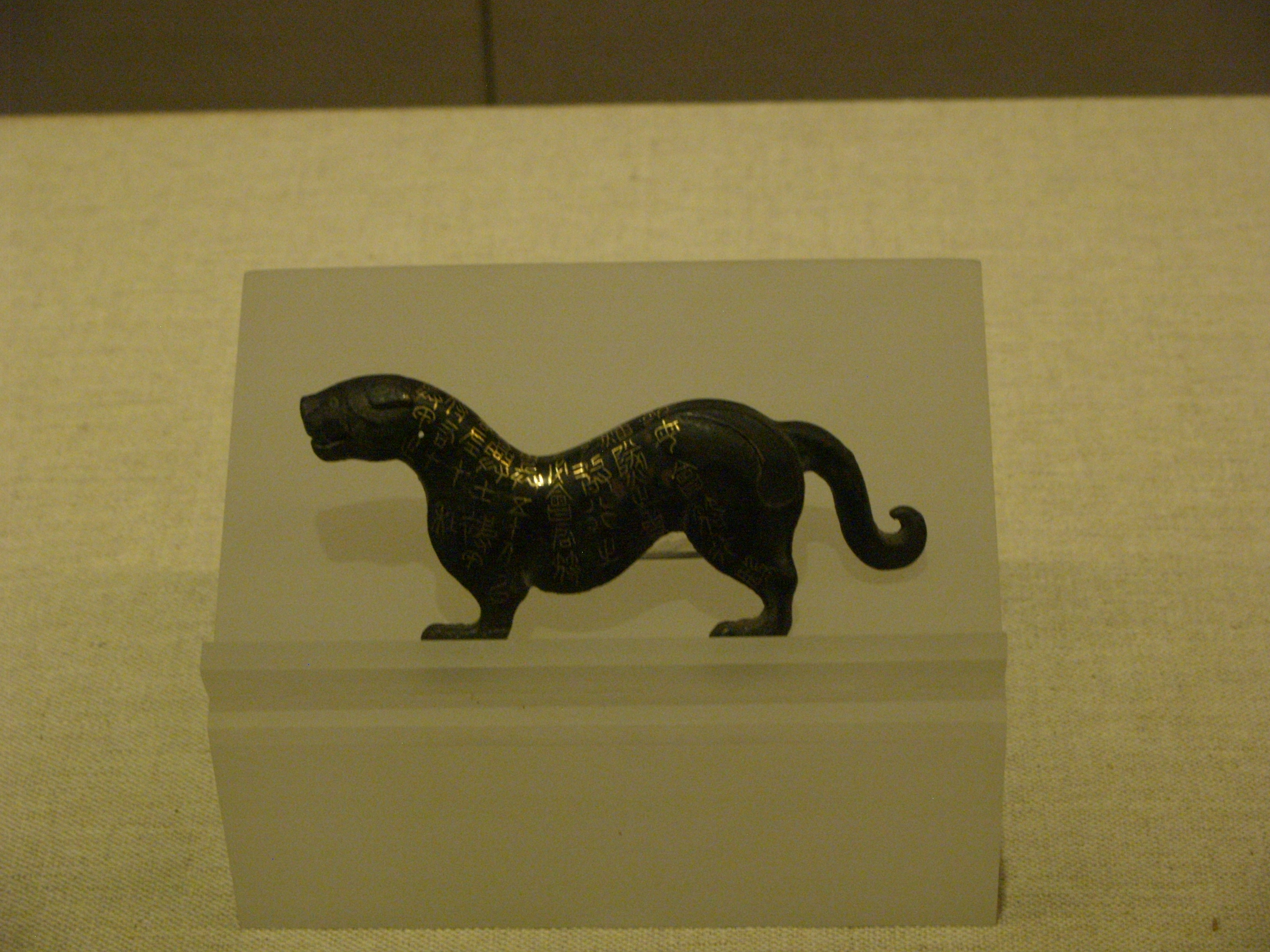 Qin Dynasty military tally in the shape of a tiger, Shaanxi History Museum Info provided by the museum shown below: Bronze Tiger-shaped Tally Qin Dynasty (221-207BC) Excavated from Shanmenkou, southern suburbs of Xi'an City Tally was one kind of special token used by emperor to transmit his order and to confer military power upon his ministers. It is comprised of two halves, the left and the right. The right half was kept in the imperial palace, while the left half was held by commander stationed outside. Only when both parts were fitted together, completing the inscription, would an officer accept the written order as valid.